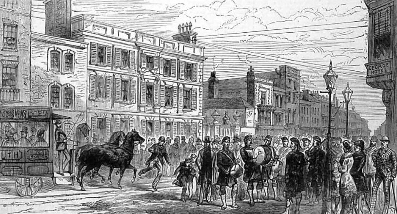 Old Original Antique Victorian Print 1882 Portsmouth High Street Government House (Supplement to the Illustrated London News)